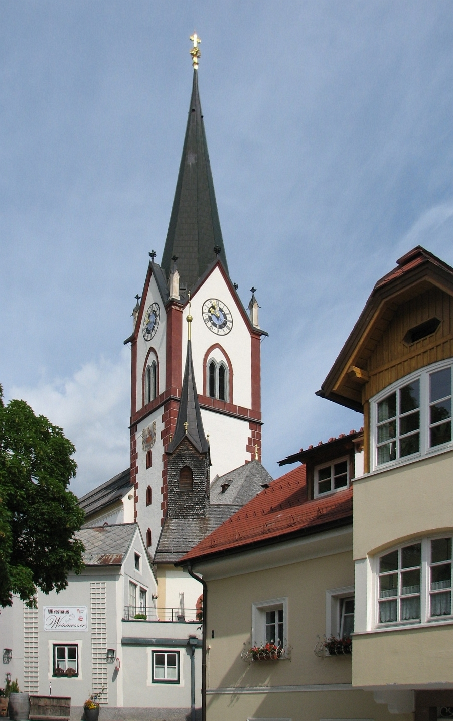 Centre of Mariapfarr in Salzburg Province, Austria